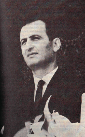 Salah Jadid between 1963 and 1966 in Syria.